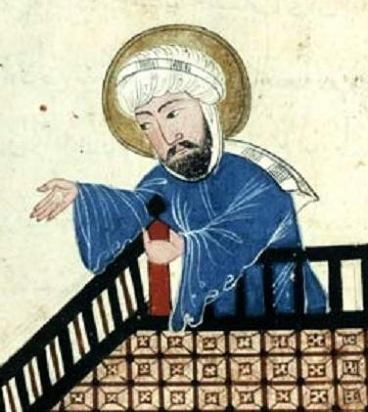 The Islamic Prophet Muhammad, 17th century Ottoman copy of an early 14th century (Ilkhanate period) manuscript of Northwestern Iran or northern Iraq (the "Edinburgh codex"). Illustration of Abū Rayhān al-Bīrūnī's al-Âthâr al-bâqiyah ( الآثار الباقيةة ; "The Remaining Signs of Past Centuries")